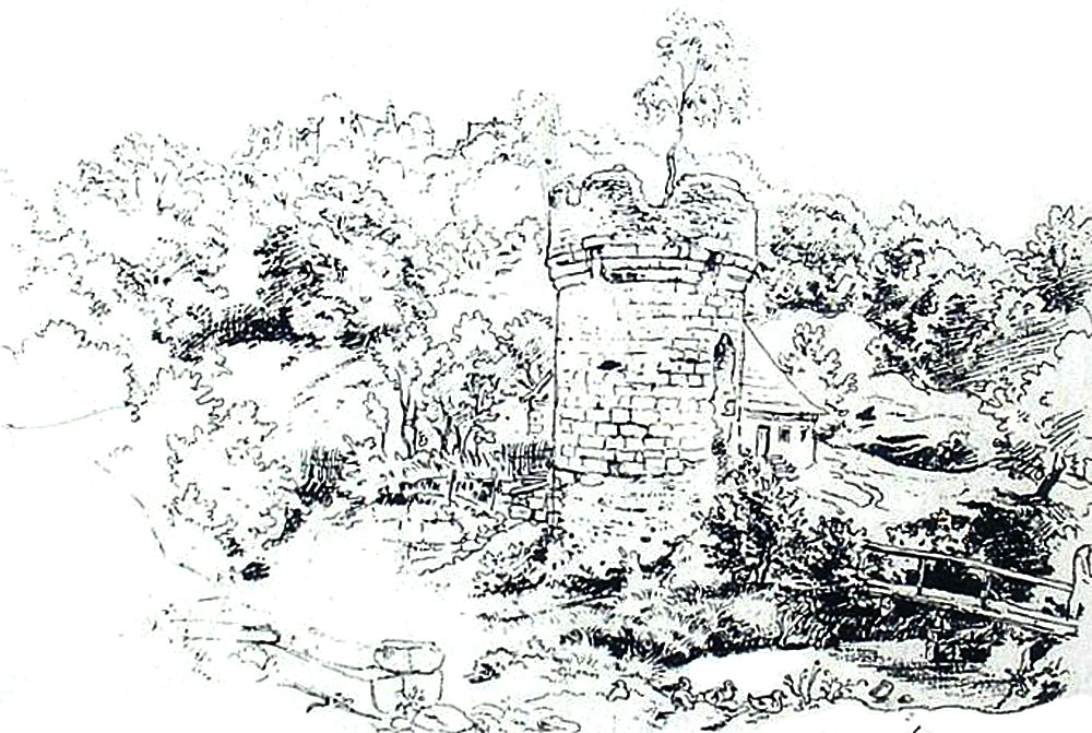 = Summary == Description Dürrnhof near Lichtenstein (Pfarrweisach, Landkreis Haßberge,Lower Franconia, Germany) Date1837, Photo taken in July 2008SourceInformation board at Dürrnhof, image is a cleaned up version of commons image referencedAuthor Adrian Ludwig Richter (1803–1884) Alternative names Adrian Ludwig RichterDescriptionGerman painter, draughtsman, etcher and illustratorDate of birth/death 28 September 1803 19 June 1884Location of birth/death Friedrichstadt Loschwitz near DresdenWork location Dresden, Meissen, RomeAuthority control : Q551896 VIAF: 100213038 ISNI: 0000 0001 2145 1853 ULAN: 500018286 LCCN: n50045834 NLA: 35688218 WorldCat Other versions Dürrnhof_Richter.jpg Wehrspeicher Dürrnhof unter der Burg Lichtenstein bei Pfarrweisach. Zeichnung von Ludwig Rchter (1837). (Quelle: Infotafel in Dürrnhof). Eigene Aufnahme, Juli 2008 Licensing This work is in the public domain in its country of origin and other countries and areas where the copyright term is the author's life plus 100 years or less. You must also include a United States public domain tag to indicate why this work is in the public domain in the United States. This file has been identified as being free of known restrictions under copyright law, including all related and neighboring rights. Dürrnhof near Lichtenstein (Pfarrweisach, Landkreis Haßberge,Lower Franconia, Germany)